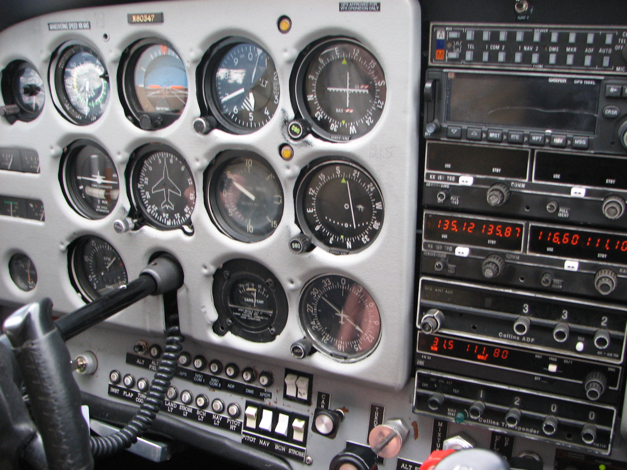 Cessna 172M instrument panel at left seat.